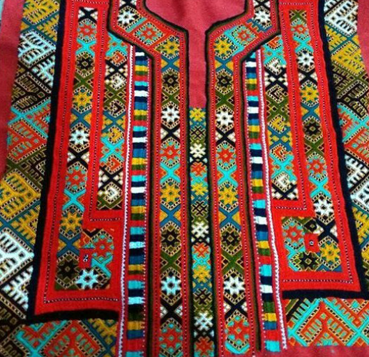 2سوزن دوزی بلوچی-مدل پرکار